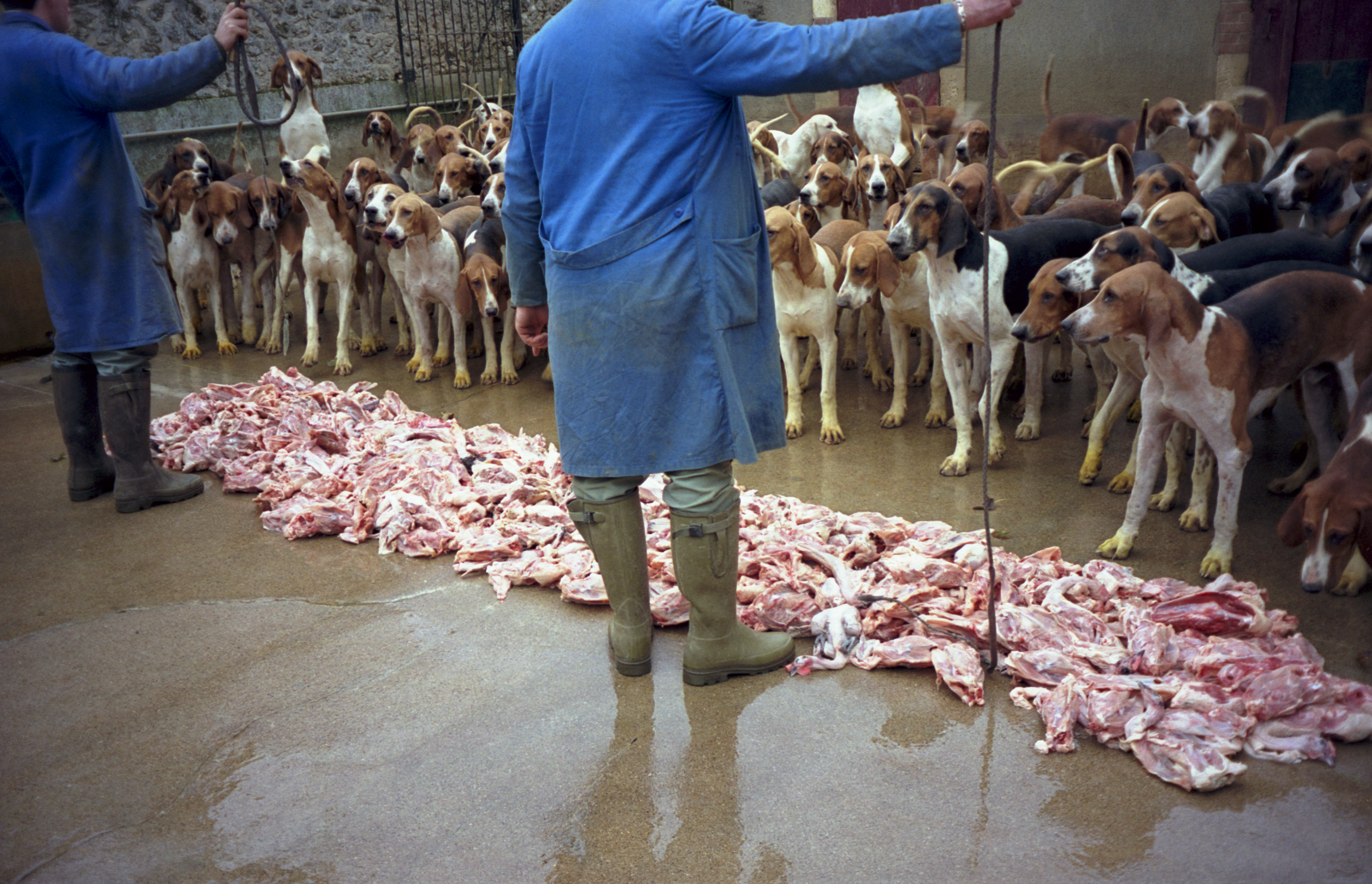 Hunting dogs at feeding time, Château de Cheverny, Loire Valley, France.